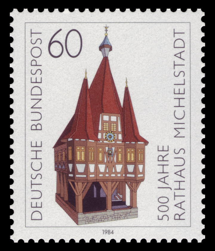 500 years of town hall of Michelstadt